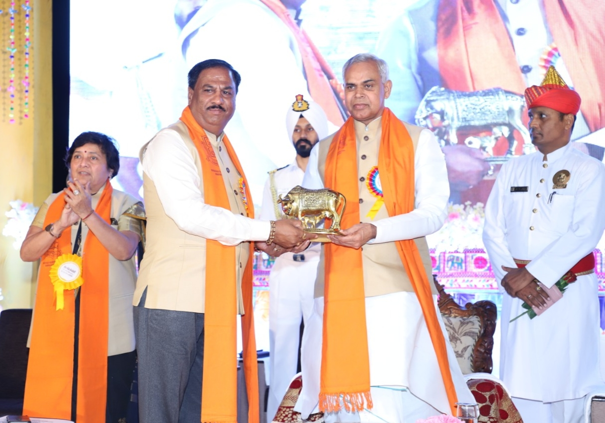 Dr.Chavda greeting honourable Governor & Chancellor of Gujarat on his first visit to Bhavnagar